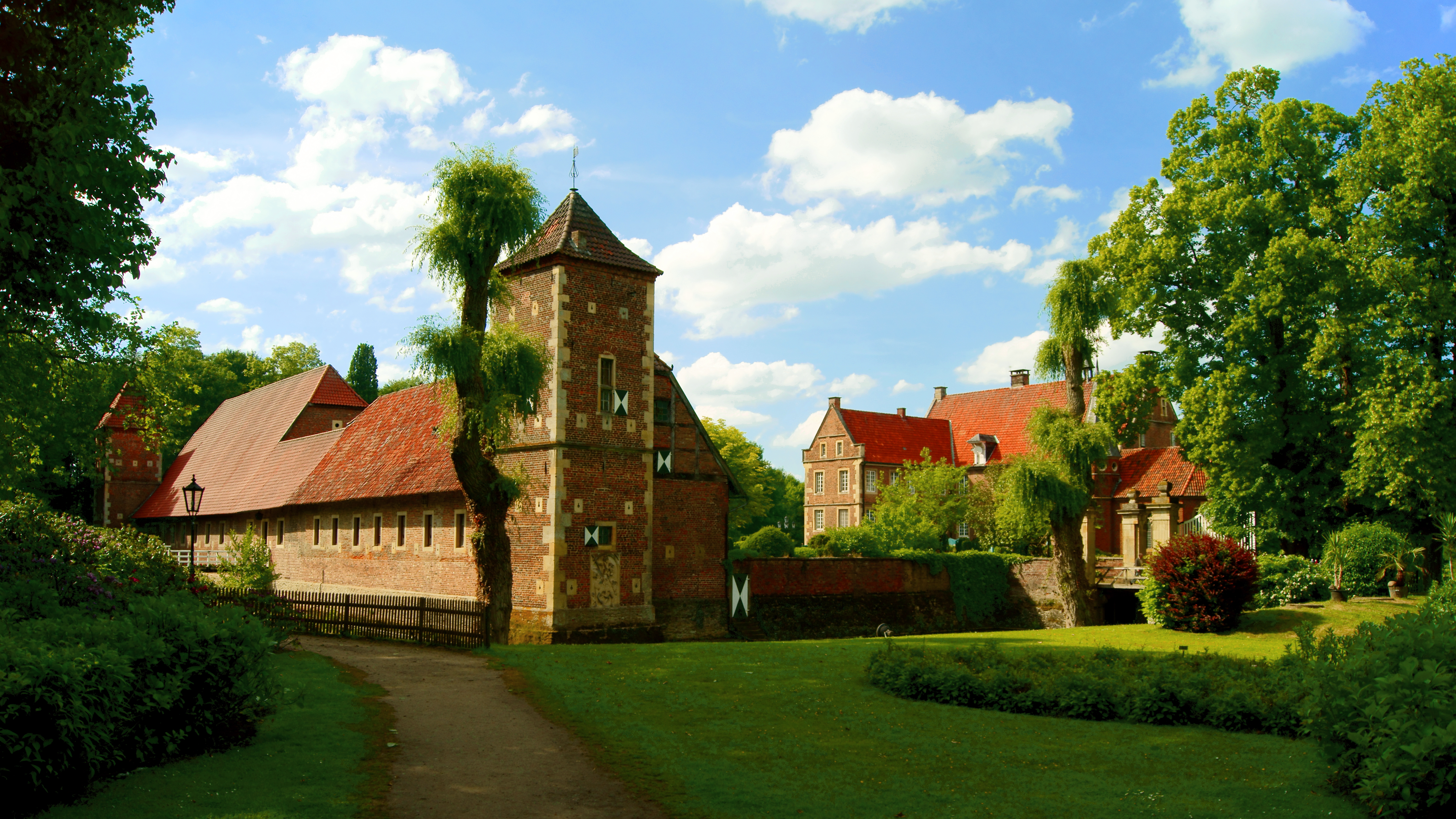 Burg Hülshoff is a water castle in the region of Münster. It is the birthplace of the poetesse Annette von Droste-Hülshoff (1797-1848).